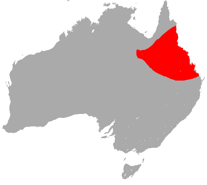 Troughton's Sheath-tailed Bat (Taphozous troughtoni) range